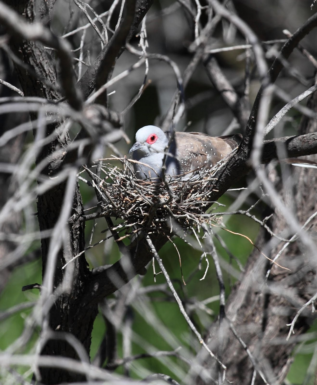 Diamond Dove (Geopelia cuneata) nesting, Northern Territory, Australia